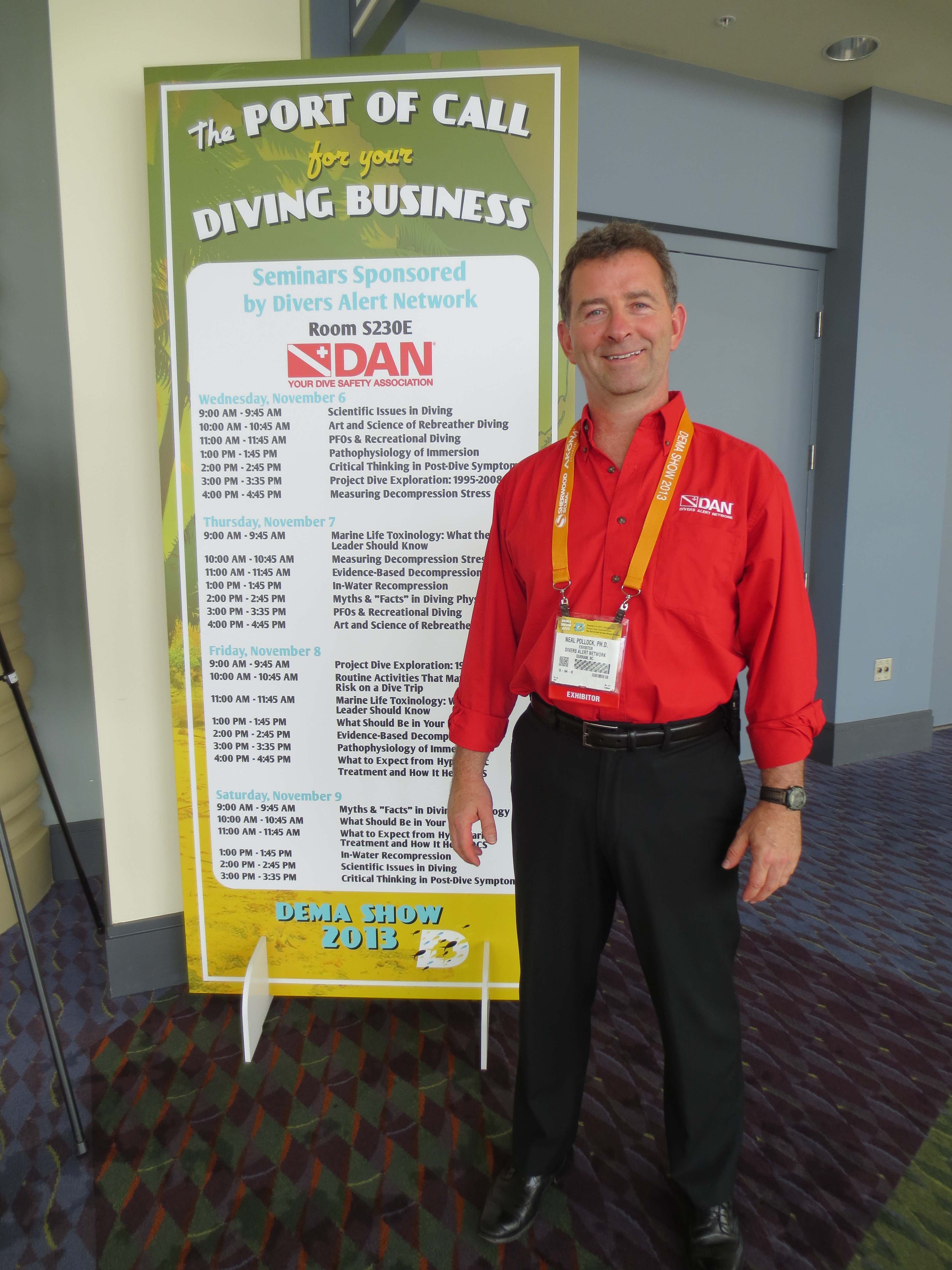 Dr Neal W Pollock photographed between physiology talks at the 2013 DEMA Show